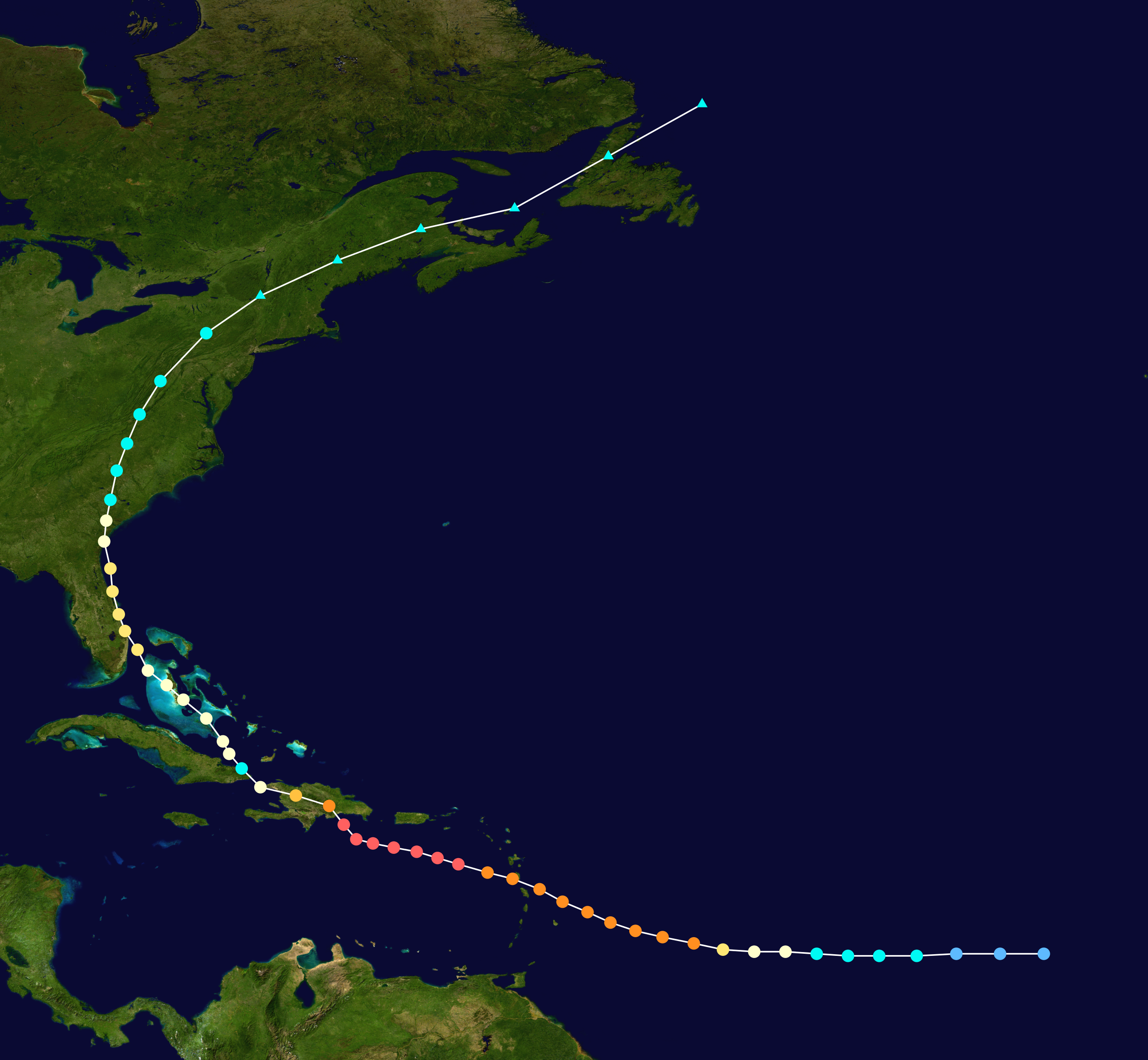 Track map of Hurricane David of the 1979 Atlantic hurricane season. The points show the location of the storm at 6-hour intervals. The colour represents the storm's maximum sustained wind speeds as classified in the Saffir–Simpson scale (see below), and the shape of the data points represent the nature of the storm, according to the legend below. Saffir–Simpson scale Tropical depression≤38 mph≤62 km/h Category 3111–129 mph178–208 km/h Tropical storm39–73 mph63–118 km/h Category 4130–156 mph209–251 km/h Category 174–95 mph119–153 km/h Category 5≥157 mph≥252 km/h Category 296–110 mph154–177 km/h Unknown Storm type Tropical cyclone Subtropical cyclone Extratropical cyclone / Remnant low / Tropical disturbance / Monsoon depression